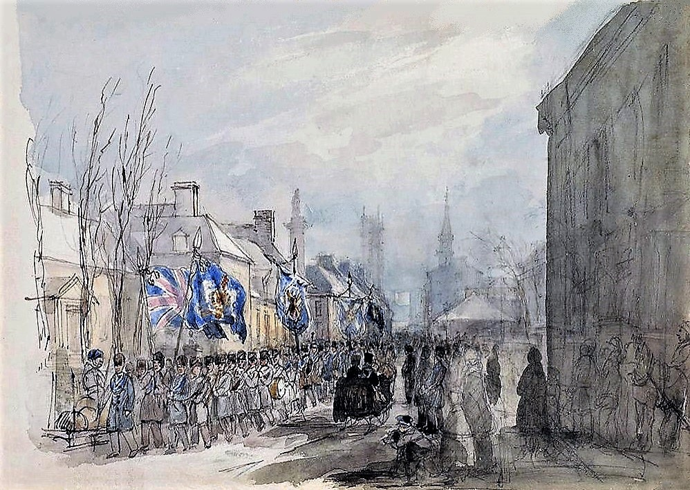 St. Andrew's Society Parade view of Montréal, Québec, Canada